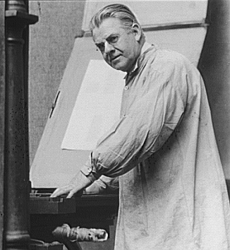 American typographer and book designer Frederick W. Goudy (1865-1947)